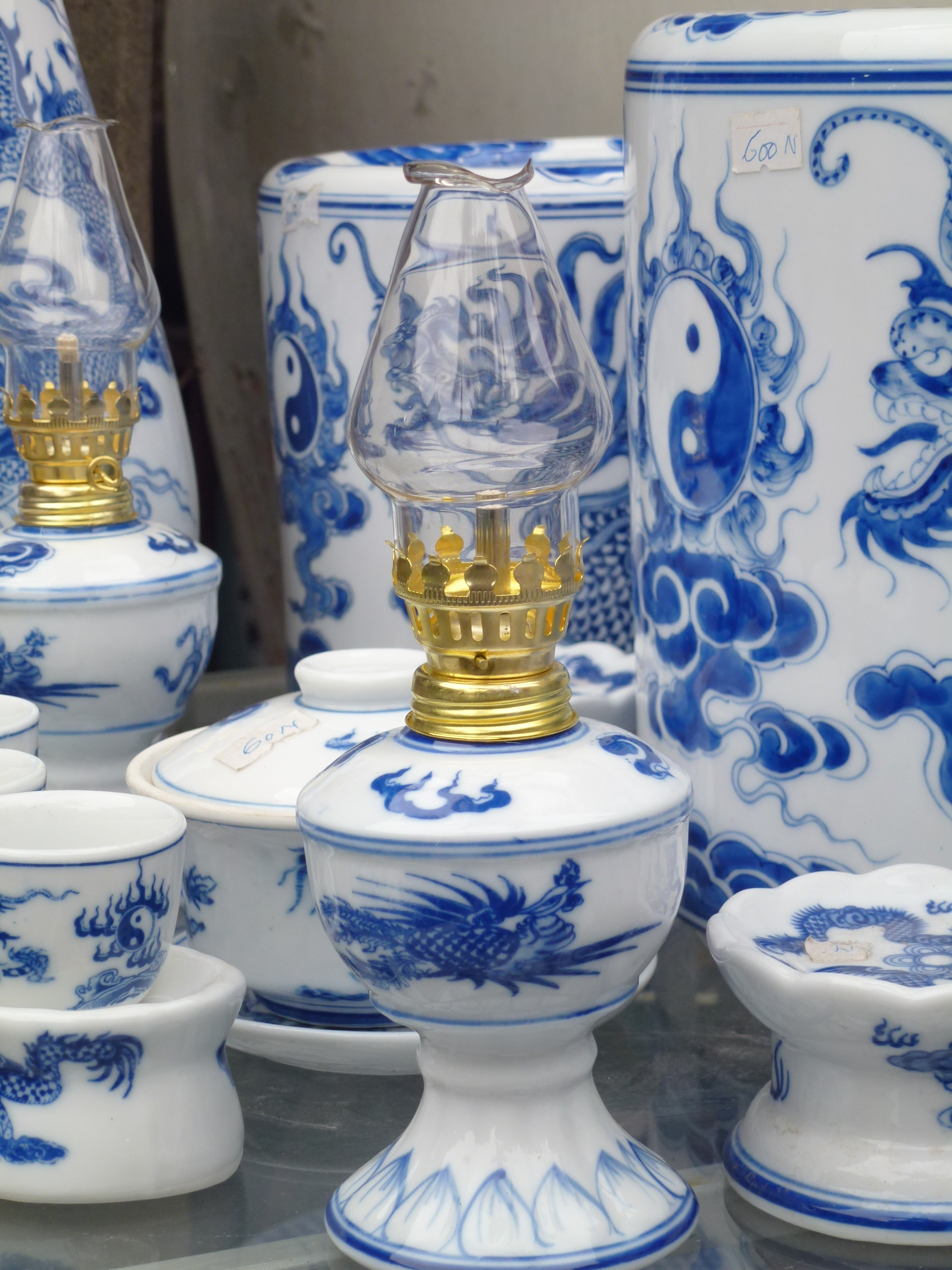 Kerosene lamps in VietnamTiếng Việt: Đèn dầu bằng sứ bát Tràng